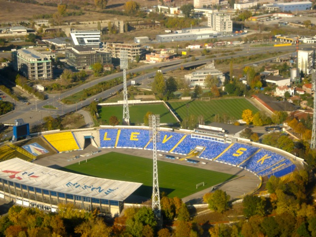 PFC Levski Sofia's Georgi Aspauhov Stadium in Sofia, Bulgaria